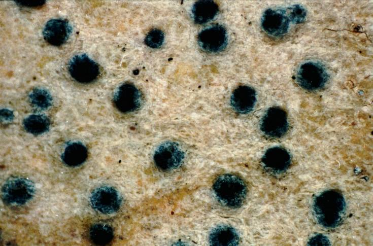 Pyrenula pseudobufonia (Rehm) R.C. Harris, 1985 (photograph of a herbarium specimen taken through a dissecting microscope (x22) showing the thallus and perithecia) Growing on bark of Red Oak along the roadside of Lamkin Drive, 0.3 mile N of Middle Village Church, Emmet County, Michigan, USA; collected and identified by Richard E. Riefner (No. 81-653, 7 Aug 1981); specimen is now in the Lichen Herbarium of the New York Botanical Garden.